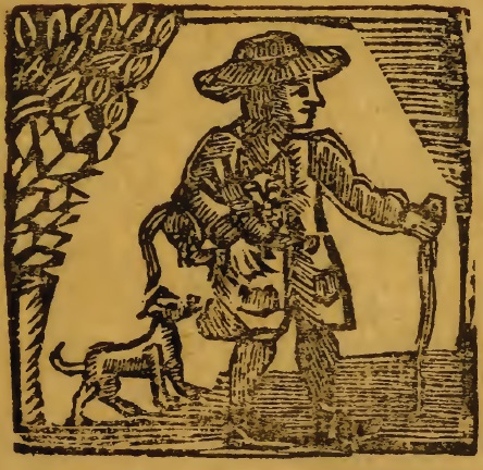 Illustration (frontispiece) from title page (1770) The famous and remarkable history of Sir Richard Whittington, three times Lord-Mayor of London. : Who lived in the time of King Henry the Fifth